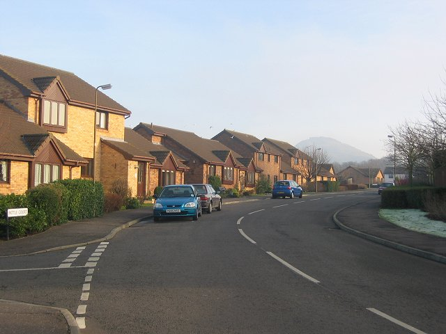 New houses, North Berwick.